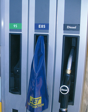 E85 (ethanol and gasoline) service station.